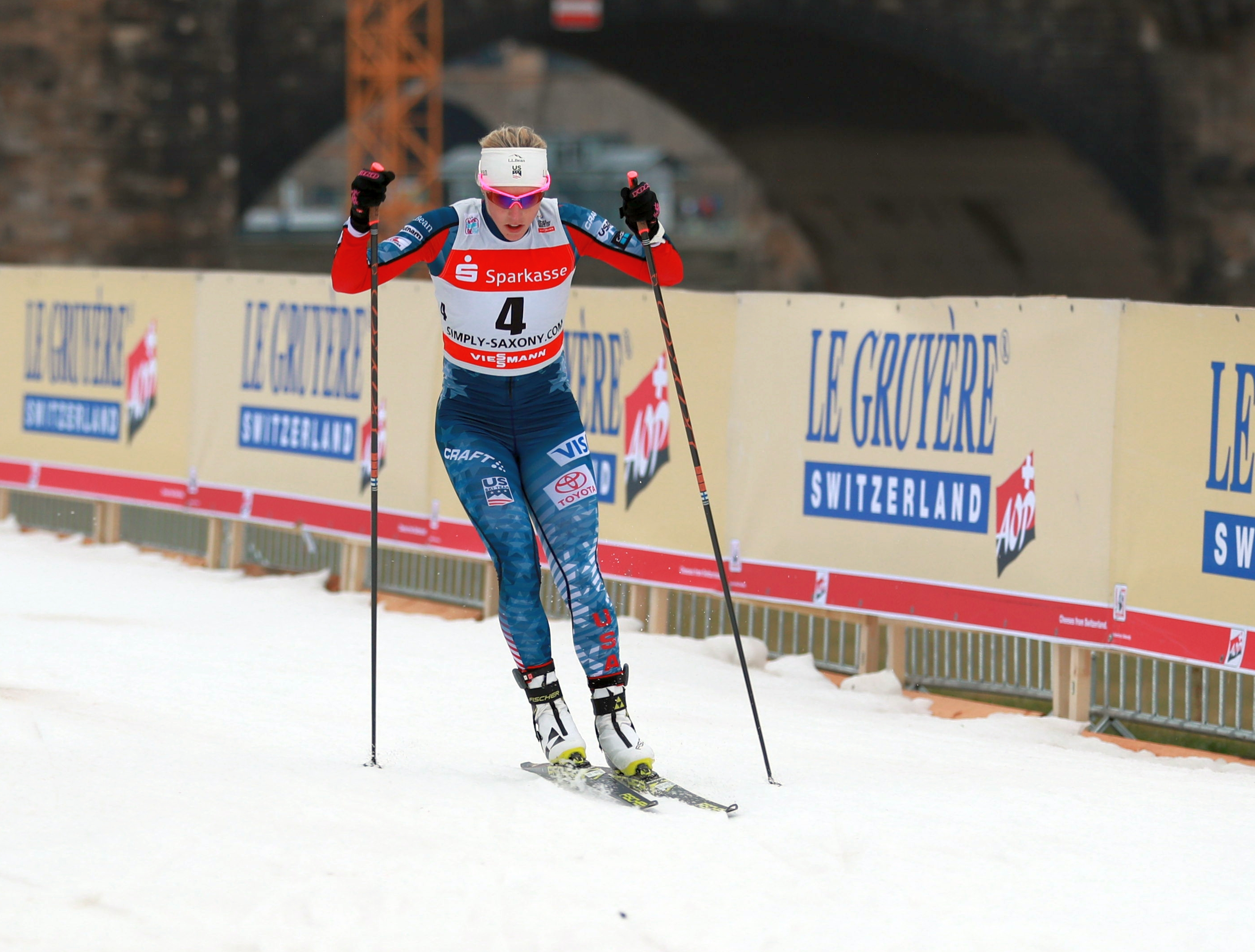 Womens Prolog at the FIS Cross-Country World Cup Dresden 2018: Kikkan Randall